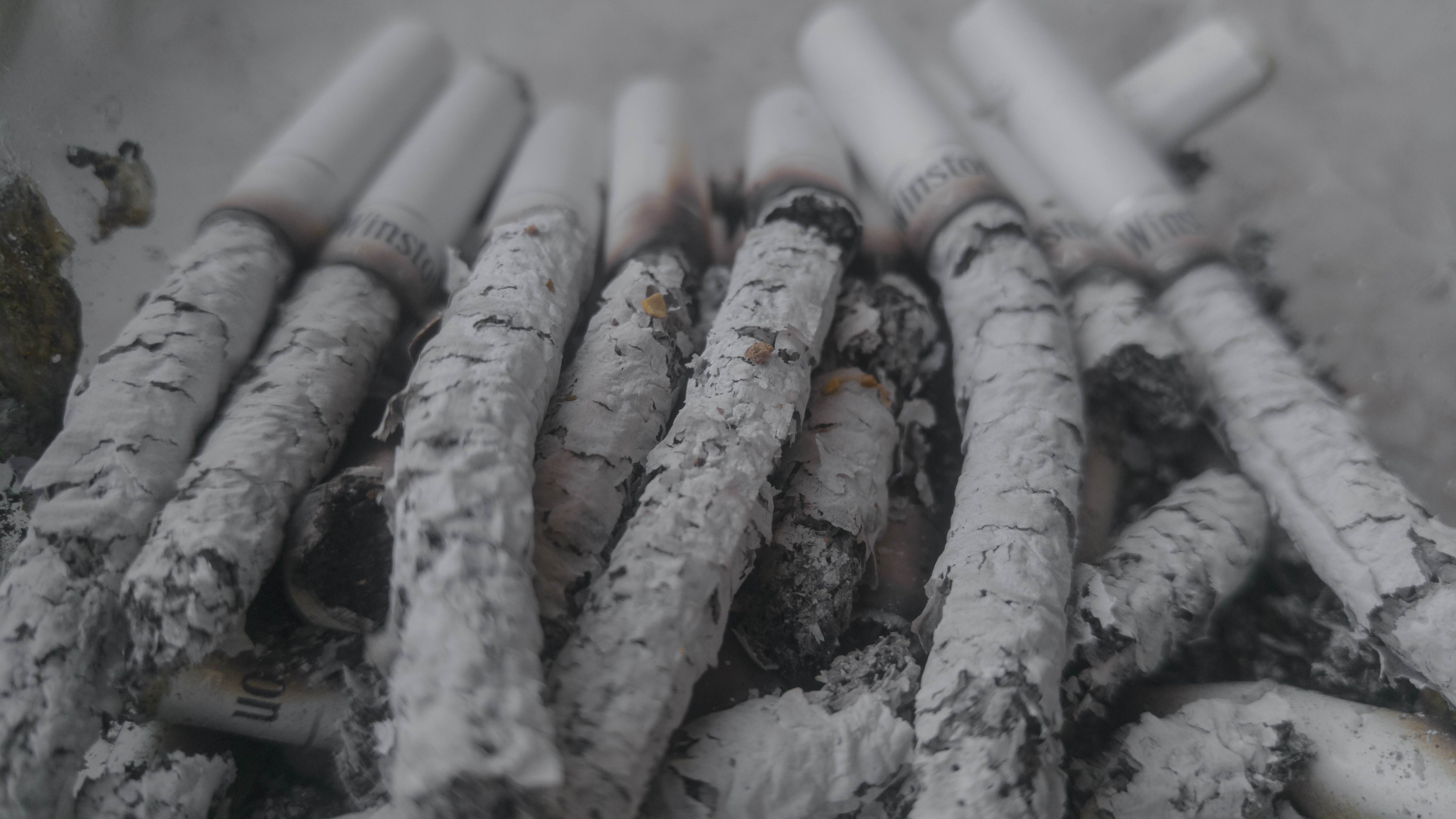 Smoking cessation is the process of discontinuing tobacco smoking. Tobacco smoke contains nicotine, which is addictive and can cause dependence.